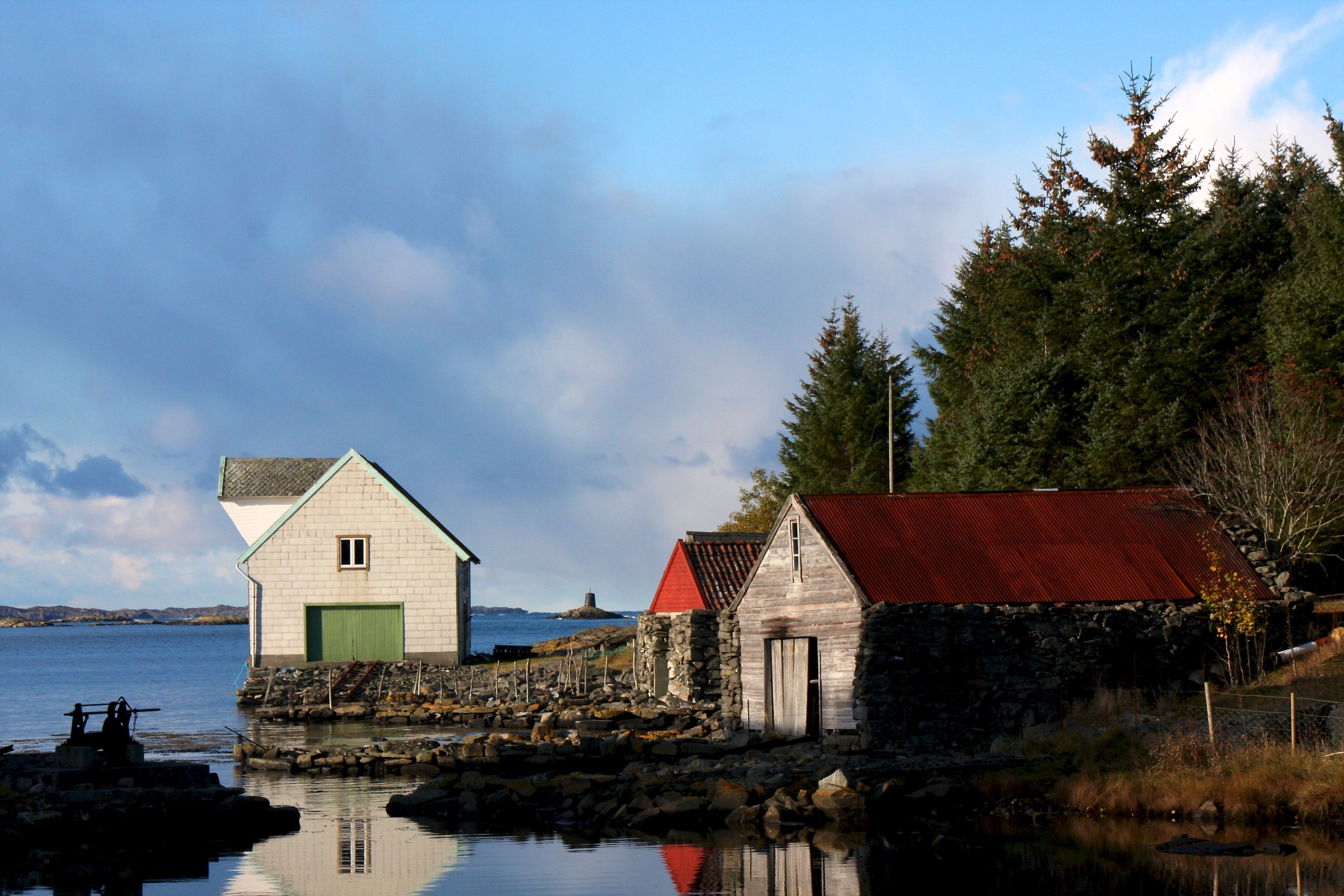 Gulen municipality, Norway.